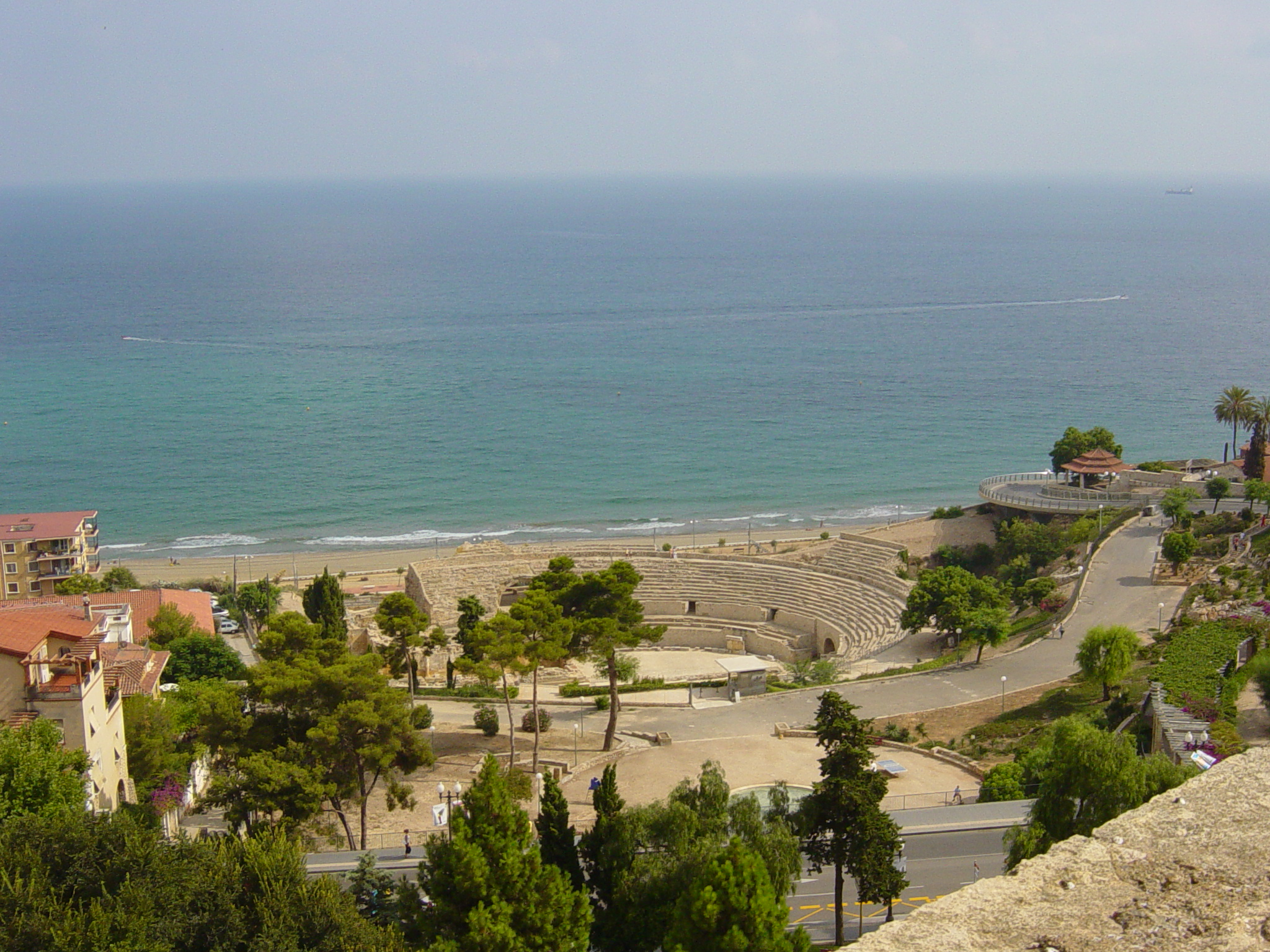 Amphitheatre in Tarragona.